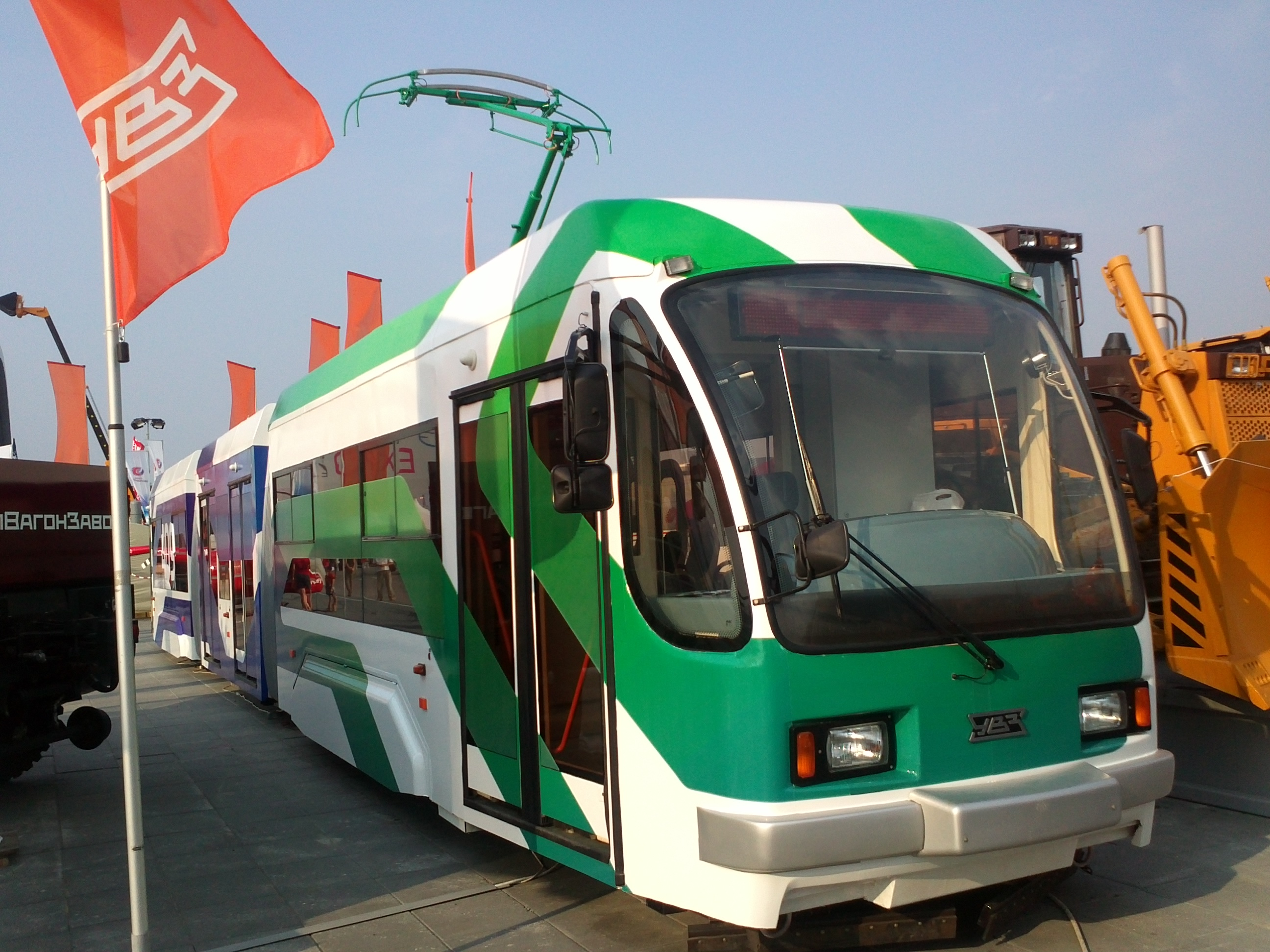 Uralvagonzavod tram at Innoprom